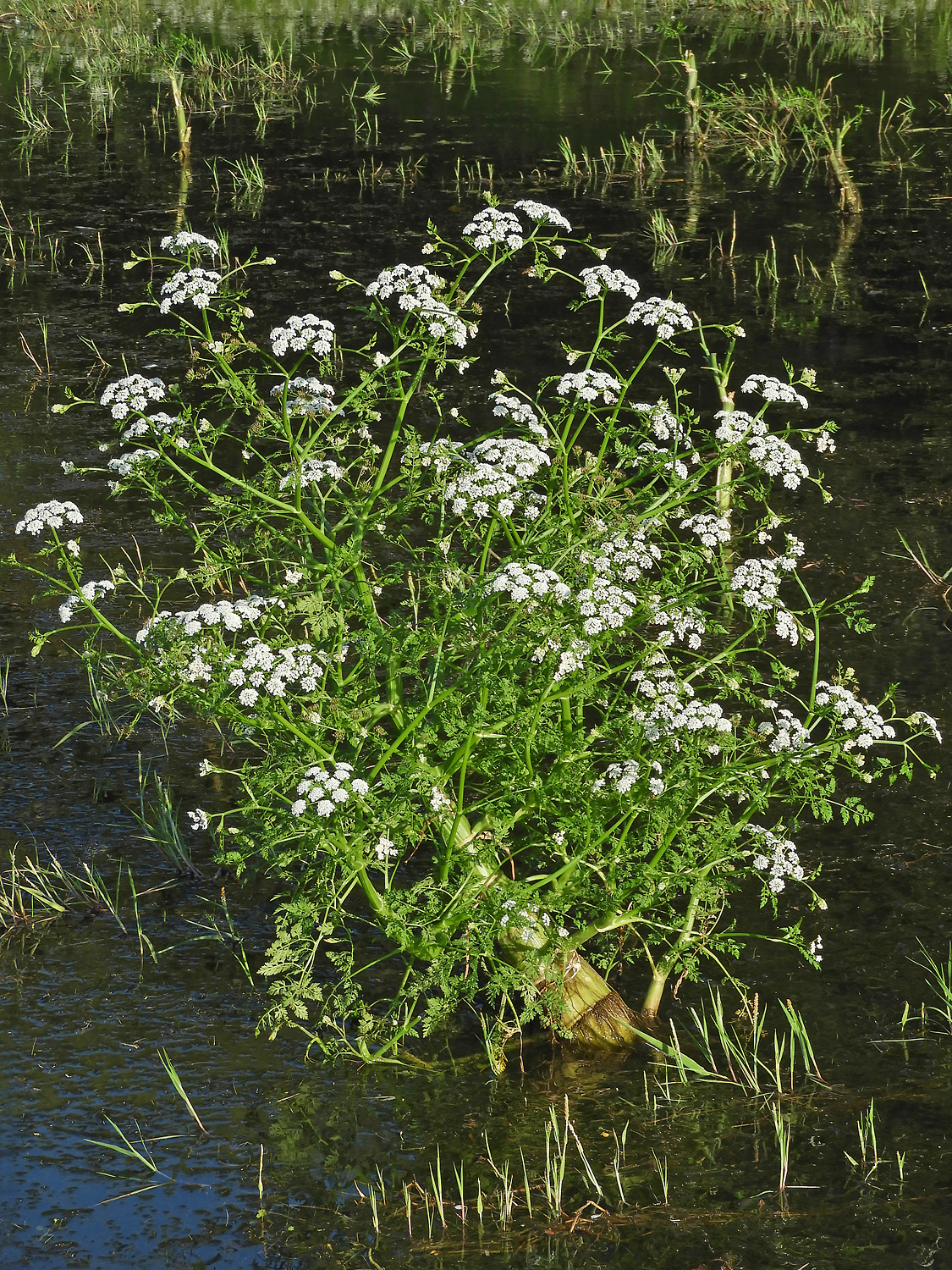 Habitus of flowering Fine-leaved Water dropwort (Oenanthe aquatica). Location: Northern Saxony-Anhalt, Germany.